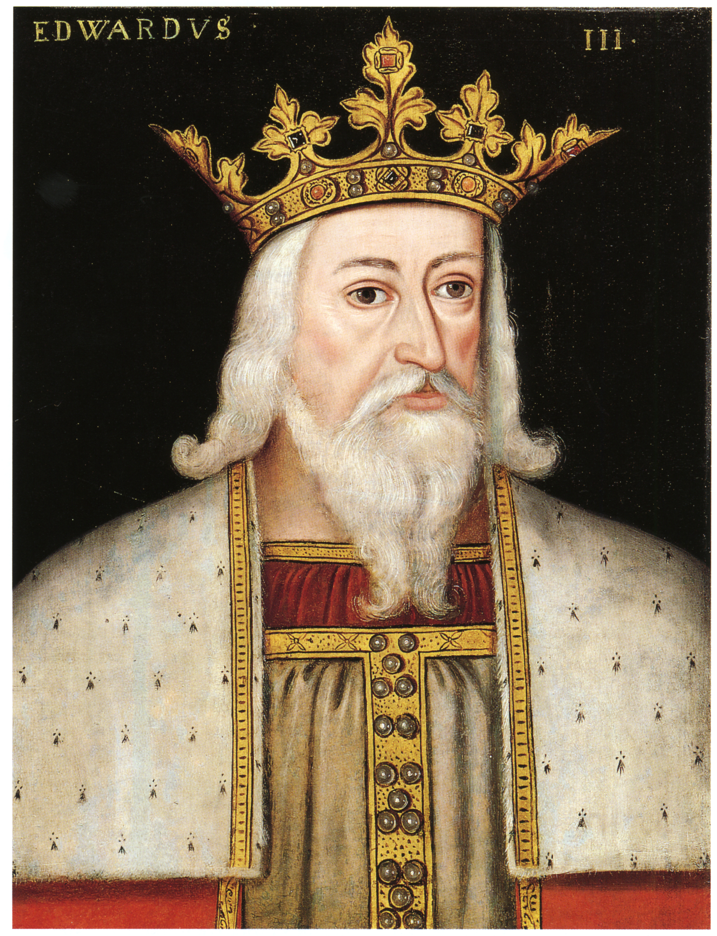 This image is a JPEG version of the original PNG image at File: King Edward III.png. Generally, this JPEG version should be used when displaying the file from Commons, in order to reduce the file size of thumbnail images. However, any edits to the image should be based on the original PNG version in order to prevent generation loss, and both versions should be updated. Do not make edits based on this version. See here for more information. King Edward III, by unknown artist, late 16th century?. National Portrait Gallery: NPG 4980(7) While Commons policy accepts the use of this media, one or more third parties have made copyright claims against Wikimedia Commons in relation to the work from which this is sourced or a purely mechanical reproduction thereof. This may be due to recognition of the "sweat of the brow" doctrine, allowing works to be eligible for protection through skill and labour, and not purely by originality as is the case in the United States (where this website is hosted). These claims may or may not be valid in all jurisdictions. As such, use of this image in the jurisdiction of the claimant or other countries may be regarded as copyright infringement. Please see Commons:When to use the PD-Art tag for more information. See User:Dcoetzee/NPG legal threat for original threat and National Portrait Gallery and Wikimedia Foundation copyright dispute for more information. This tag does not indicate the copyright status of the attached work. A normal copyright tag is still required. See Commons:Licensing for more information.